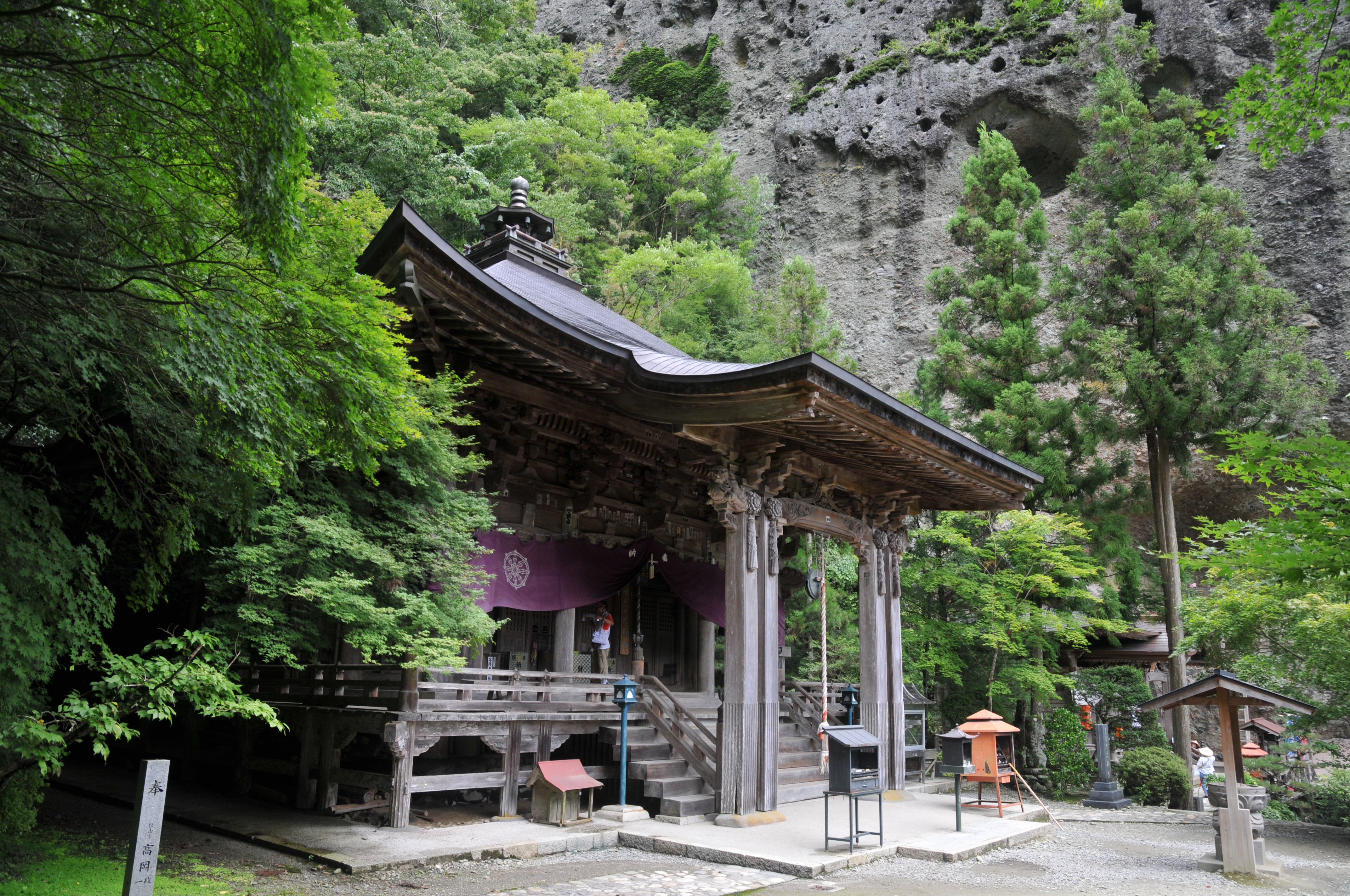 Daishi-dō (Japan's national important cultural property), Iwaya-ji temple, Ehime pref., Japan